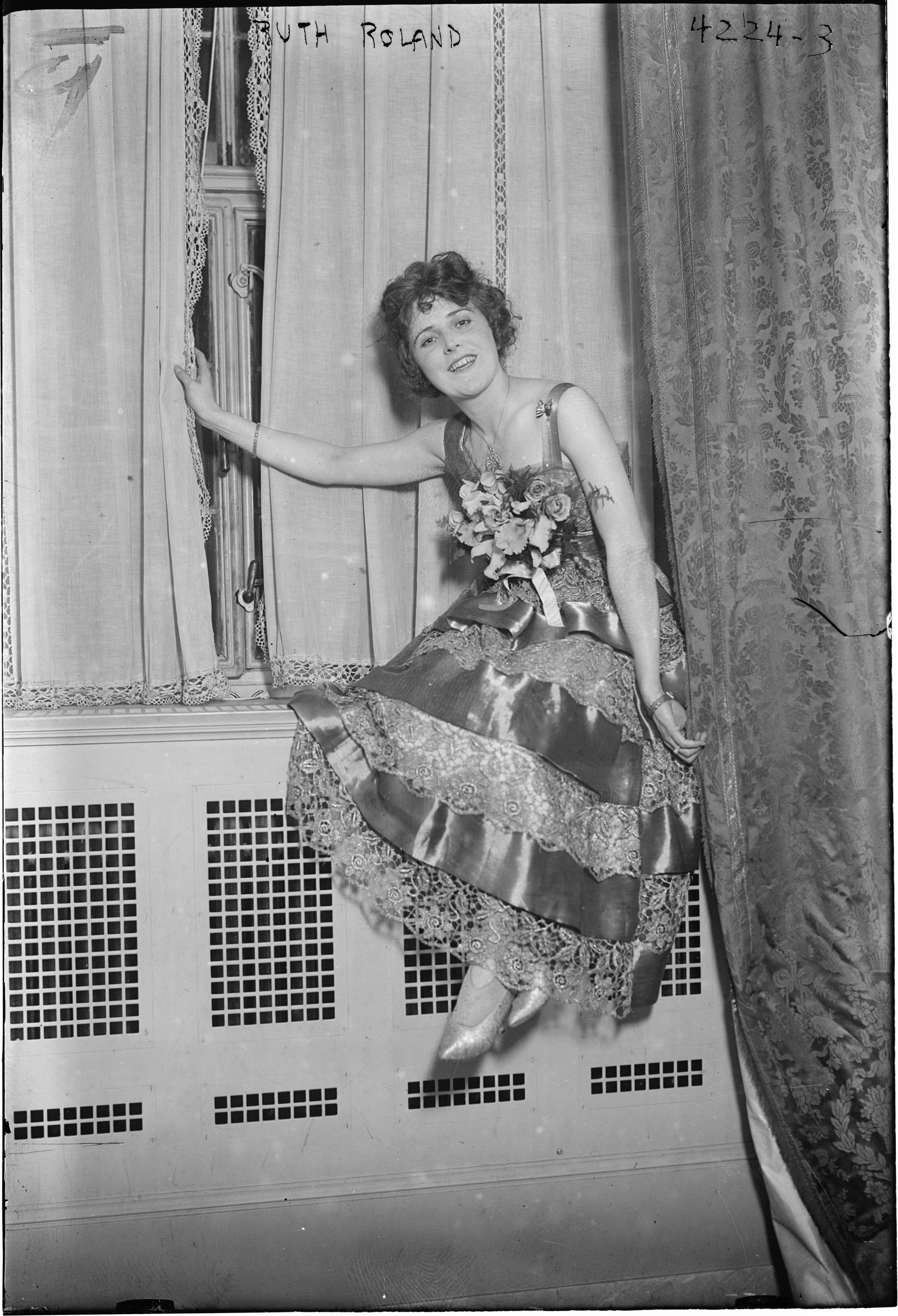 Hollywood actress Ruth Roland